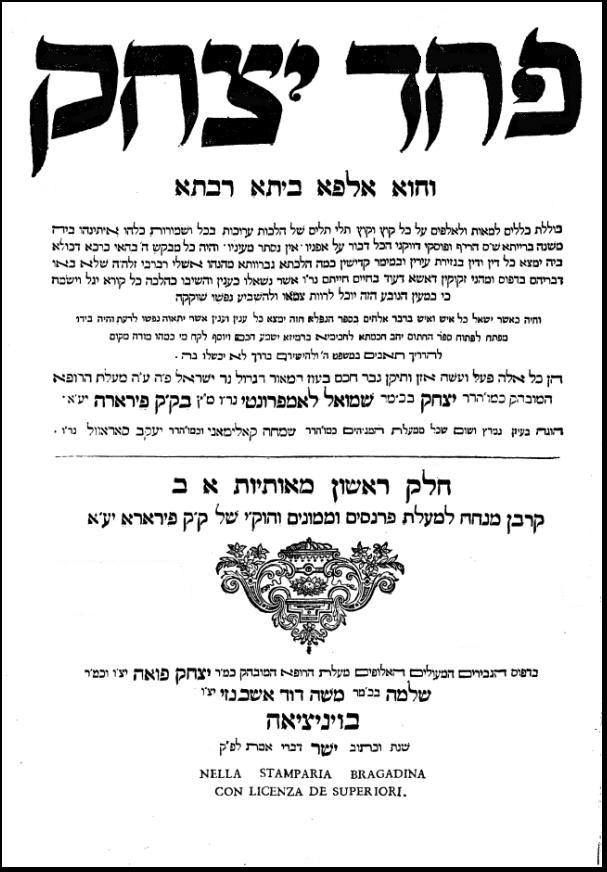 First rabbinic encyclopedia Paħad Yitzħak, 1750.